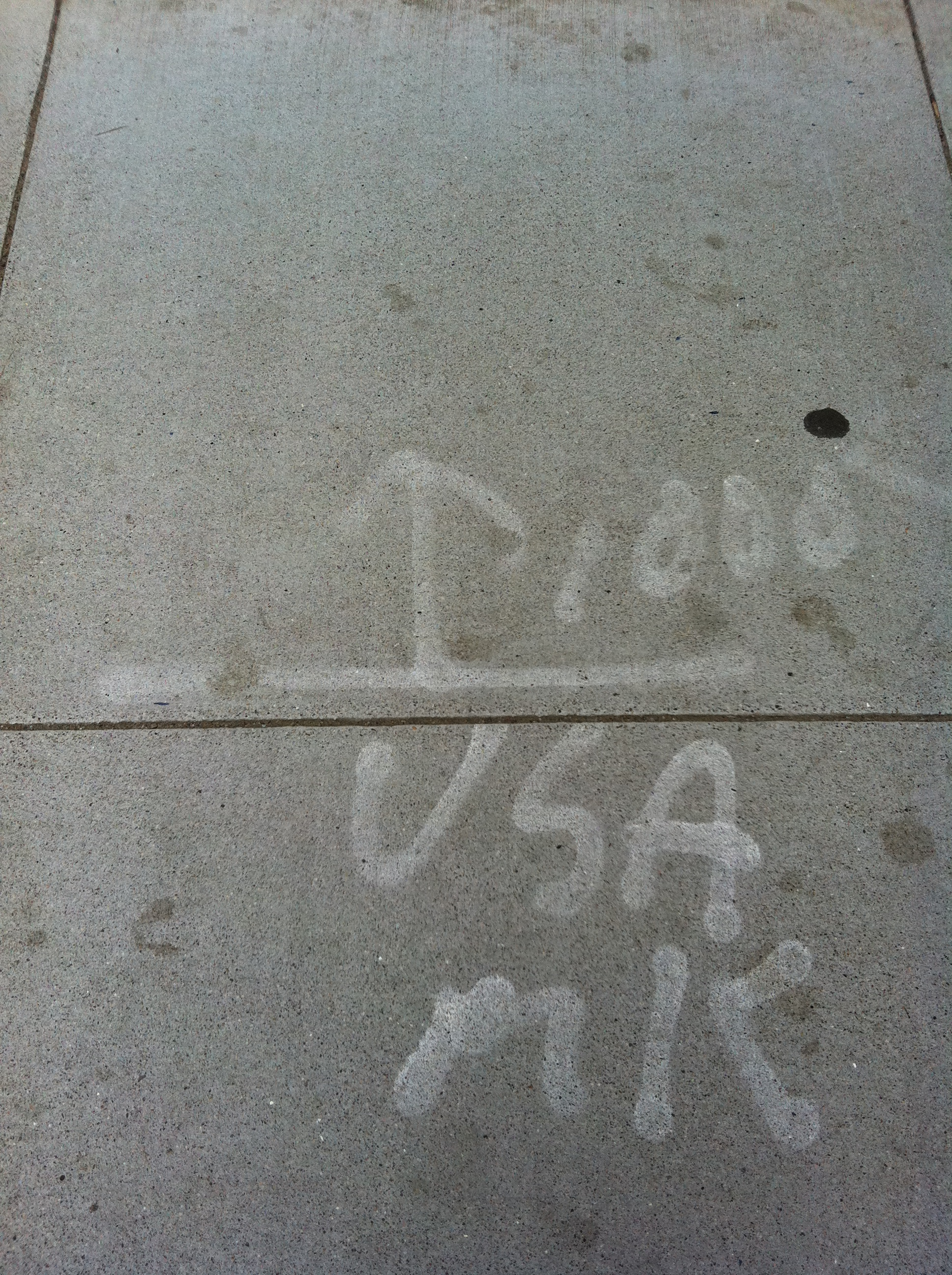 Underground service alert markings on 4th St in San Francisco